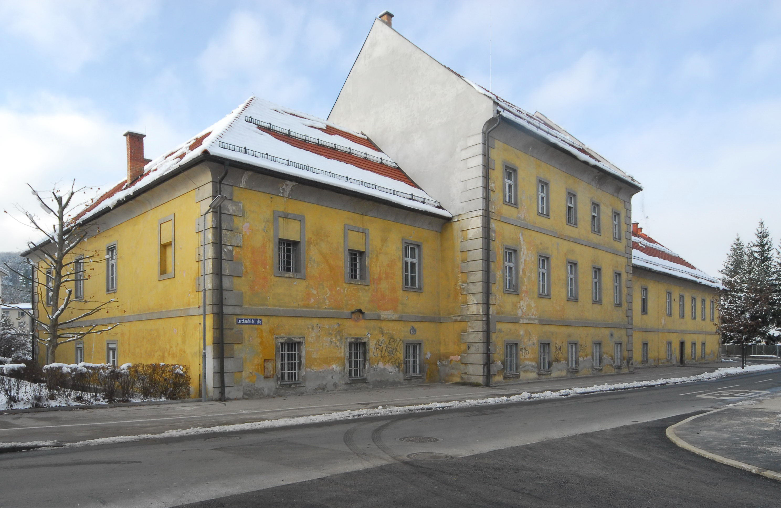 Former military hospital in the Lerchenfeldstrasse #51, situated in the 8th district “Villacher Vorstadt” of the Carinthian capital Klagenfurt on the Lake Woerth, Carinthia, Austria